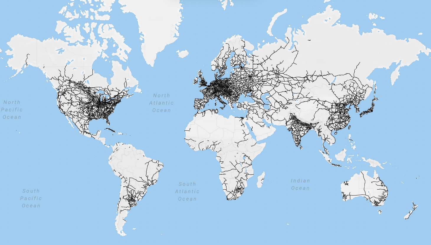 Map of the world railway network